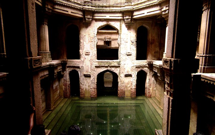 the stepwell at adalaj.